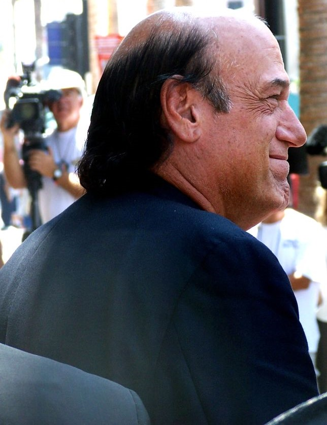 July07 386b